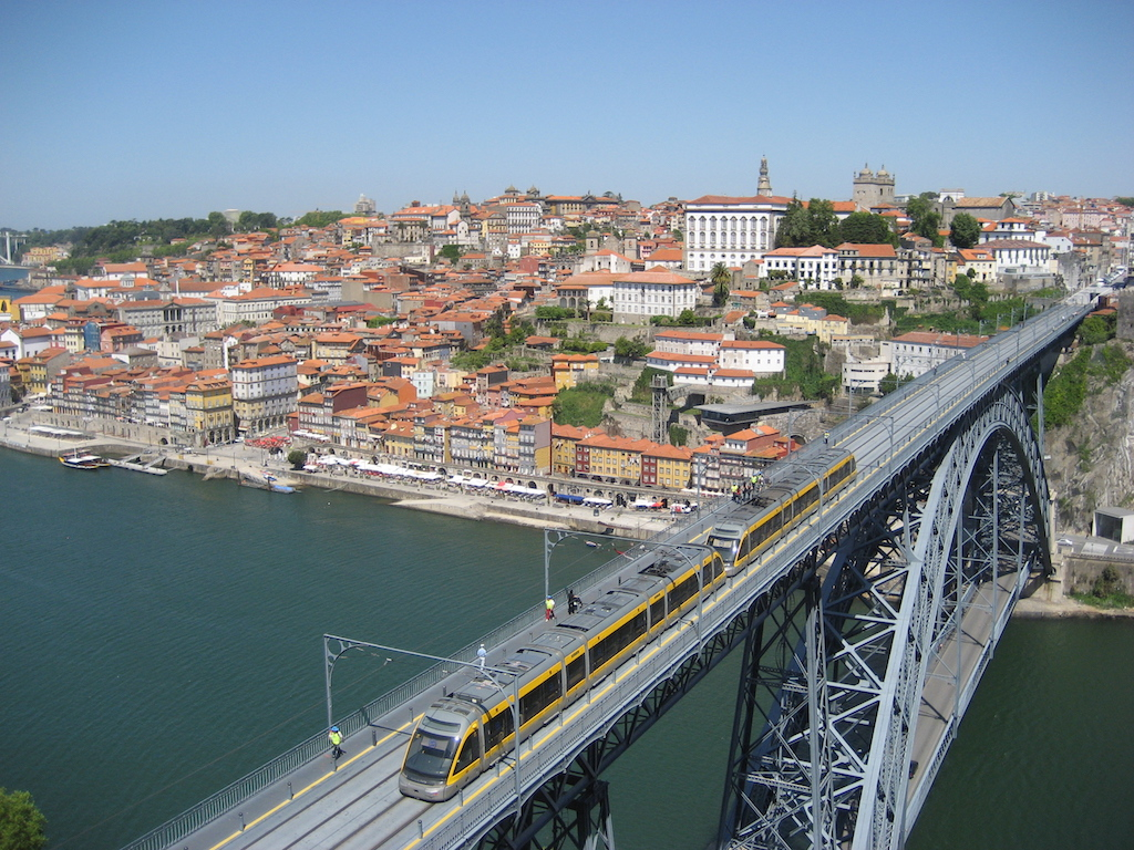 Centro Histórico do Porto with the Ponte Luís I. View from Serra do Pilar